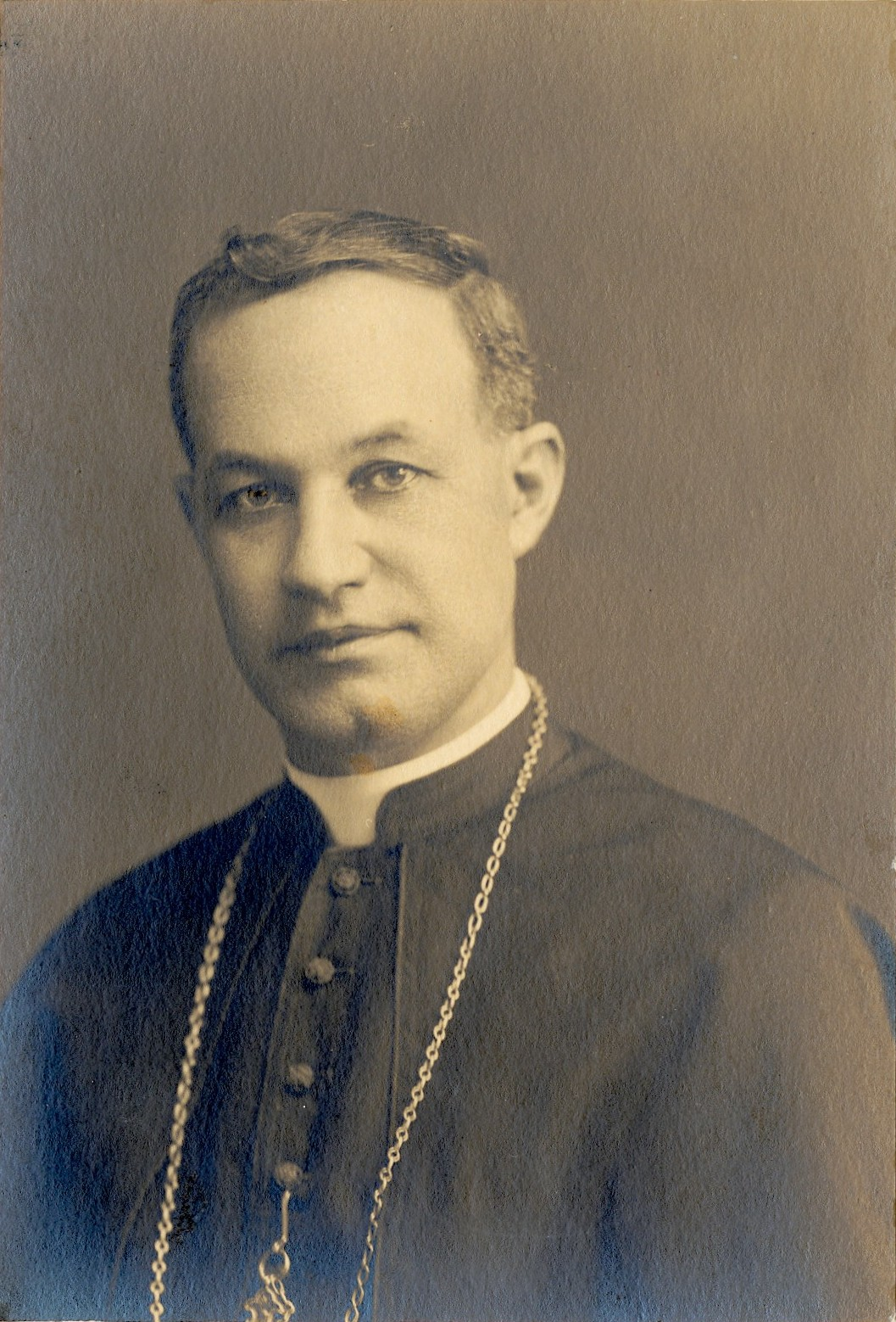 Picture of Bishop Stephen Alencastre of the diocese of Hawaii, taken about 1910